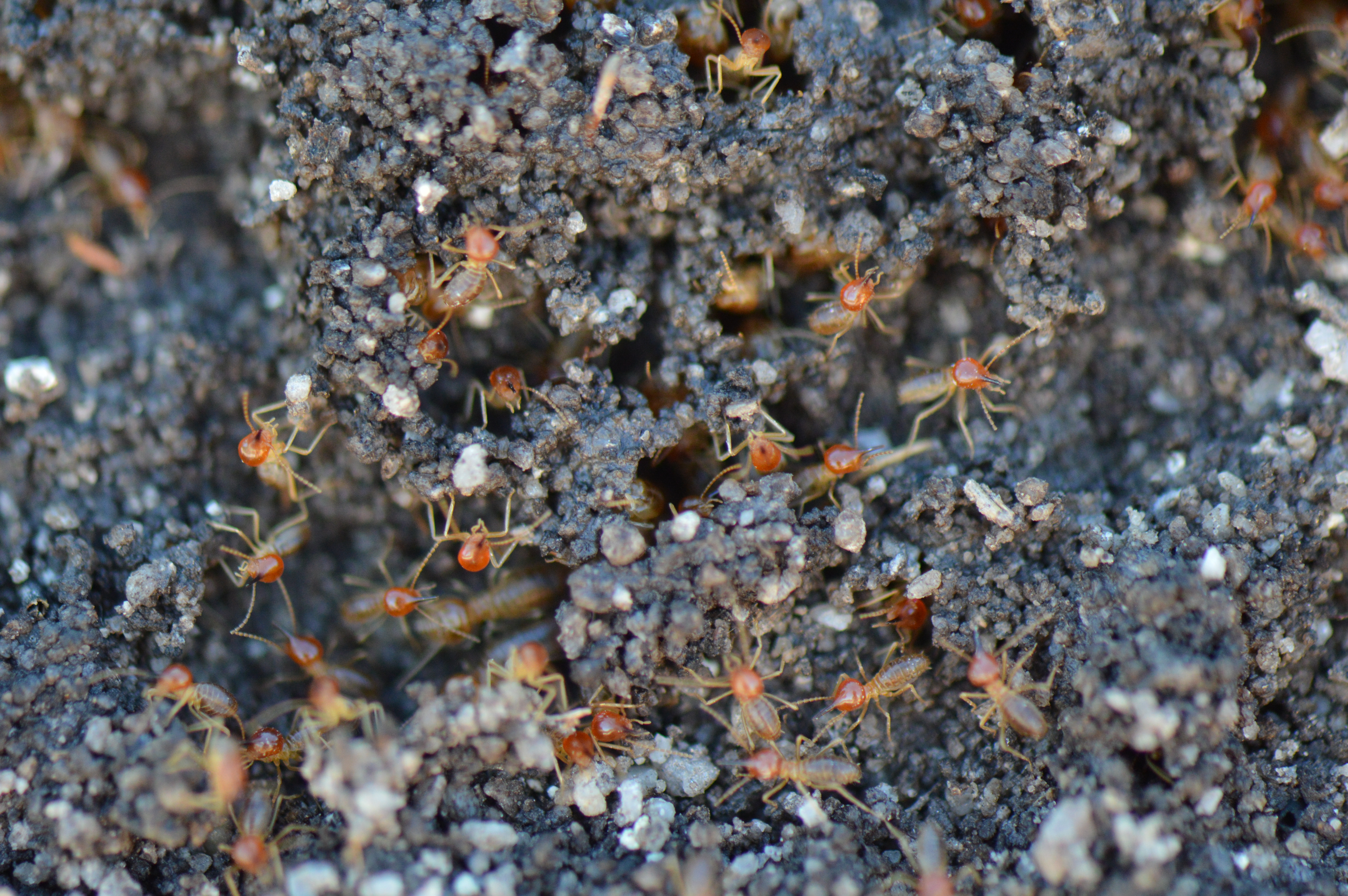 Amitermes atlanticus (black mound termites) from the Western Cape region of South Africa. Most of the termites are soldiers. Picture taken in the Groot Winterhoek mountains.